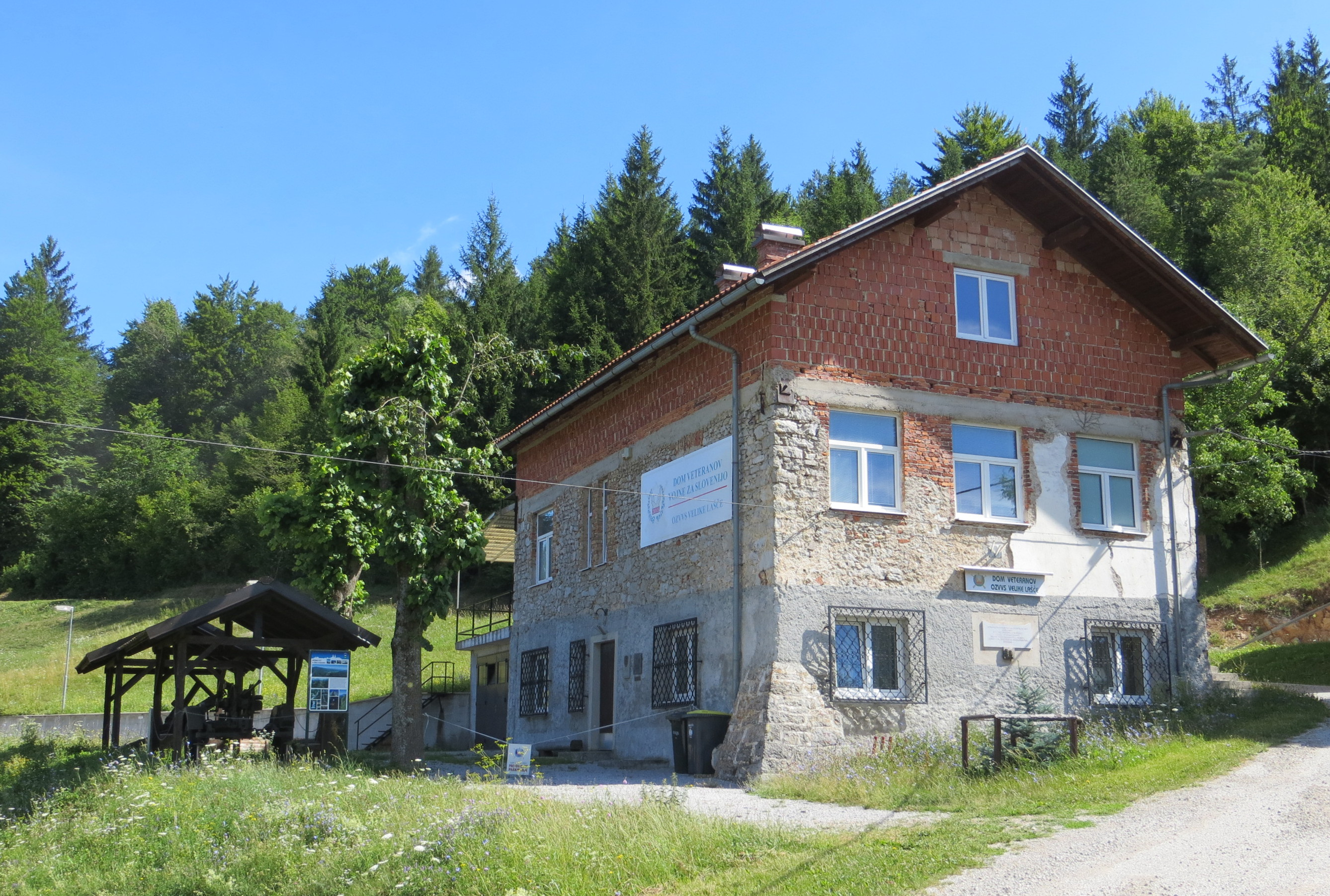 OZVVS lodge in Krvava Peč, Municipality of Velike Lašče, Slovenia